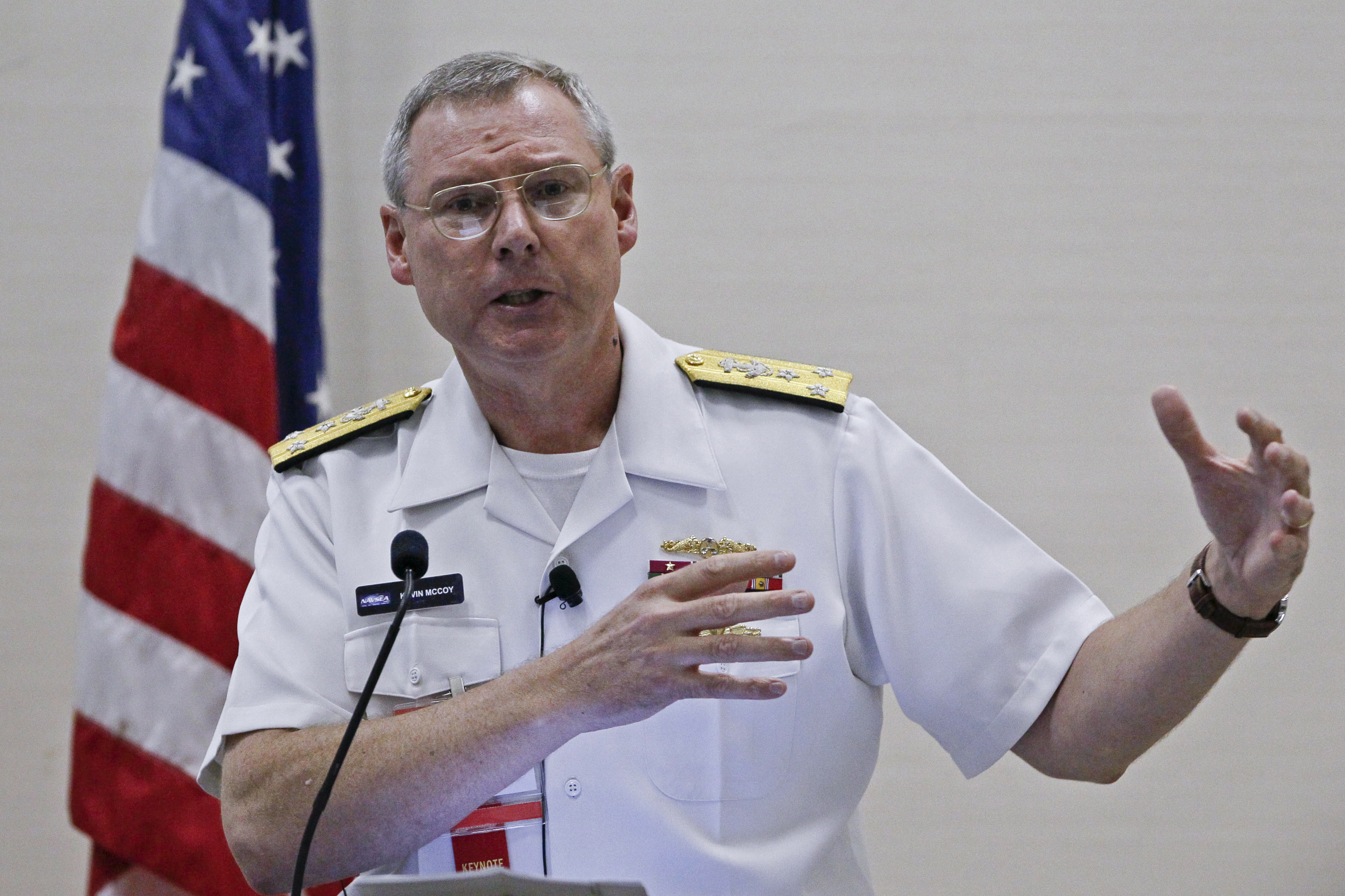 SAN DIEGO, Calif. (Aug. 30, 2011) Vice Adm. Kevin McCoy, commander of Naval Sea Systems Command, delivers the keynote address at a luncheon during Fleet Maintenance and Modernization Symposium 2011. McCoy spoke of the importance of total lifecycle management of fleet resources in a challenging fiscal environment. (U.S. Navy photo by Greg Vojtko/Released)